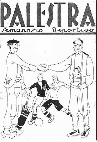 Front of the sports weekly newspaper La Palestra announcing the friendly match between the football teams Cantabria and Aragon autonomous football teams played on 9 March 1924 in Santander.